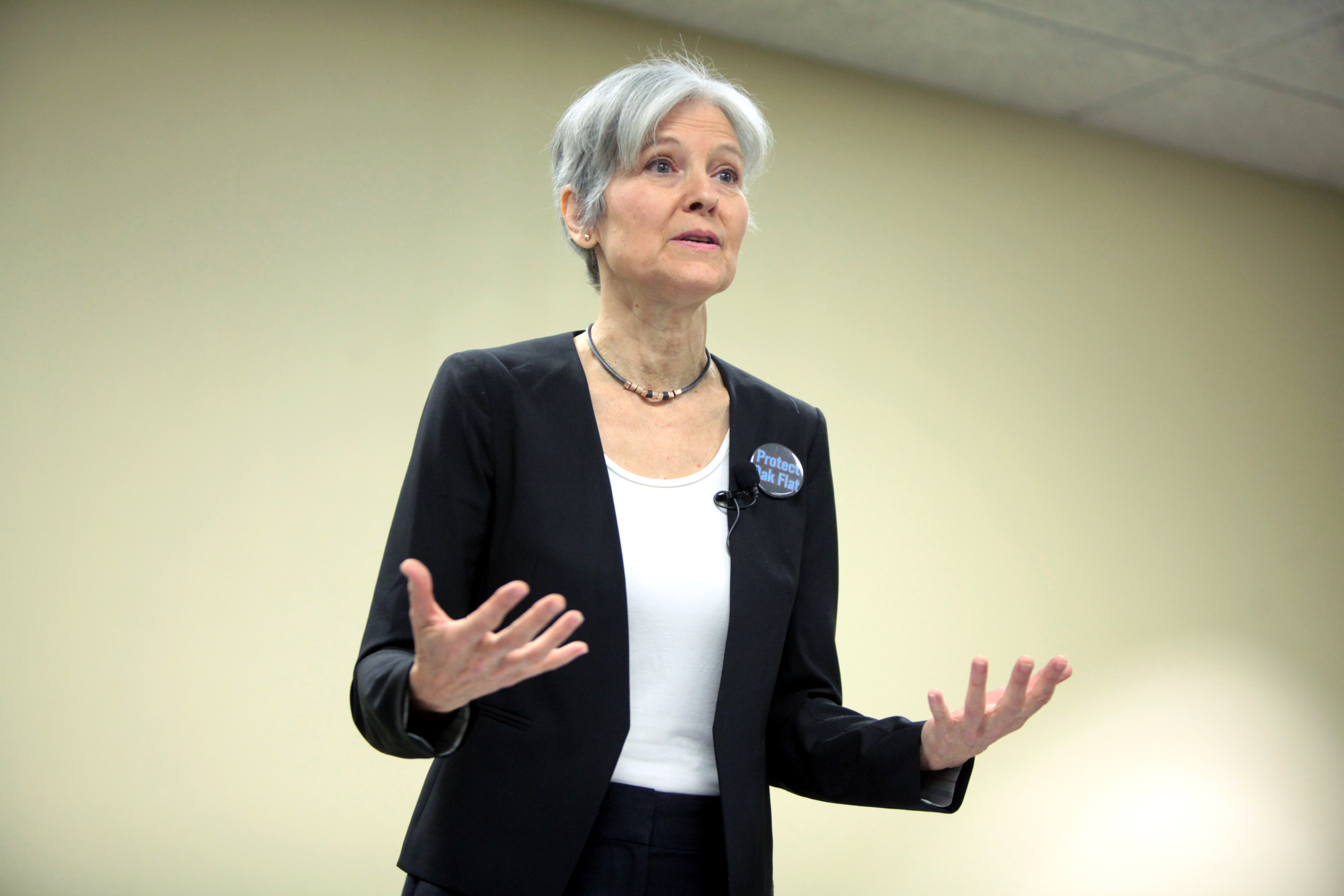 Jill Stein speaking at a Green Party Presidential town hall in Mesa, Arizona.